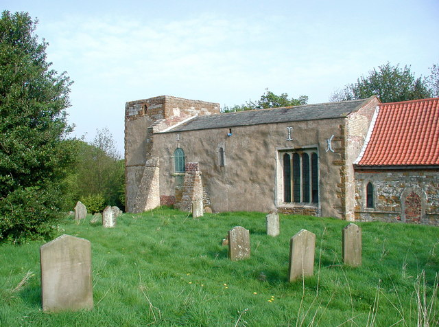 St Mary's Church, Barnetby le Wold. The ancient Saxon Church of St Mary at Barnetby le Wold, remodelled in Norman times and disused since it was replaced by the Church of St Barnabas in the early 20th century.